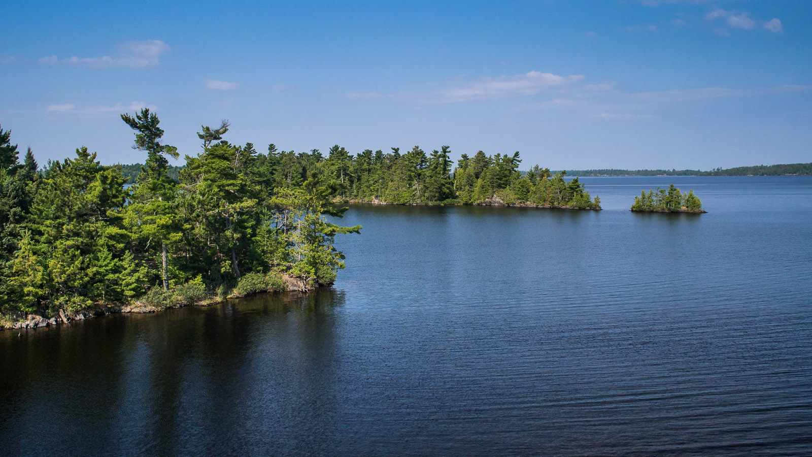 A view of Rainy Lake taken from Tango Channel on the Northwest edge of Dryweed Island.